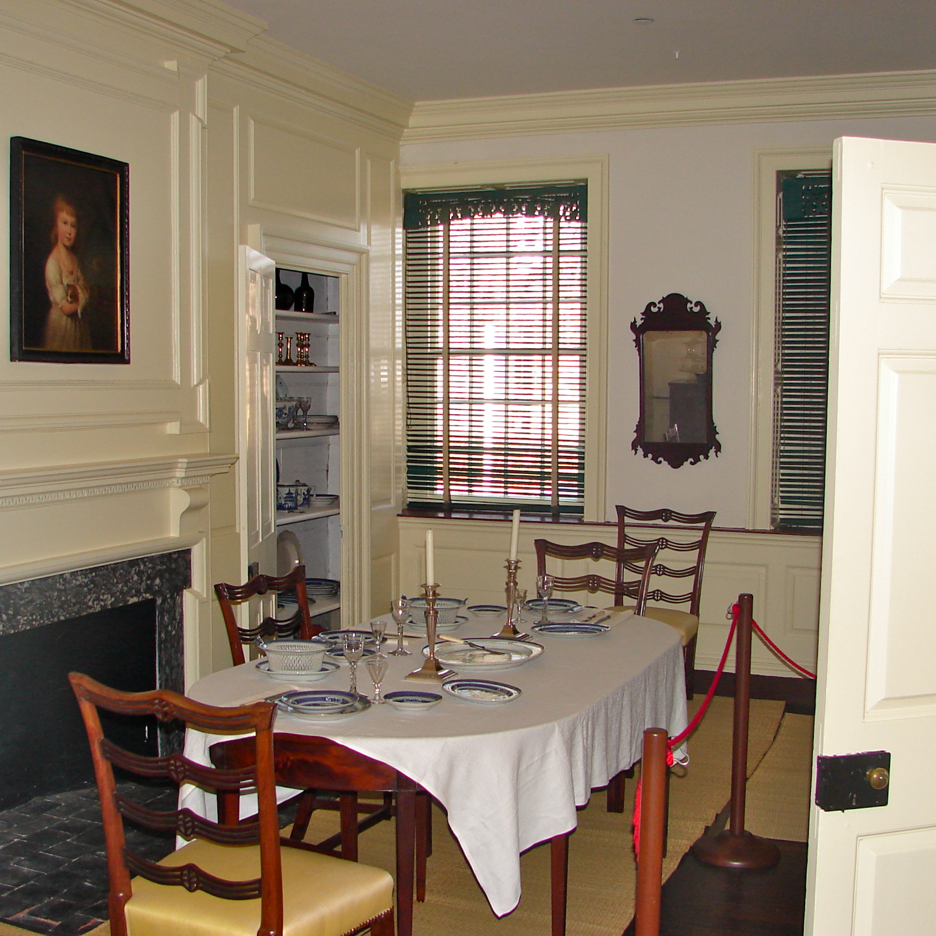 Dining room in the Germantown White House, aka the Deshler-Morris House, on Germantown Ave. in Philadelphia, PA. Building sered as residence of President Washington for several months in 1793 and 1794. On NRHP and part of Colonial Germantown Historic District (NHL)